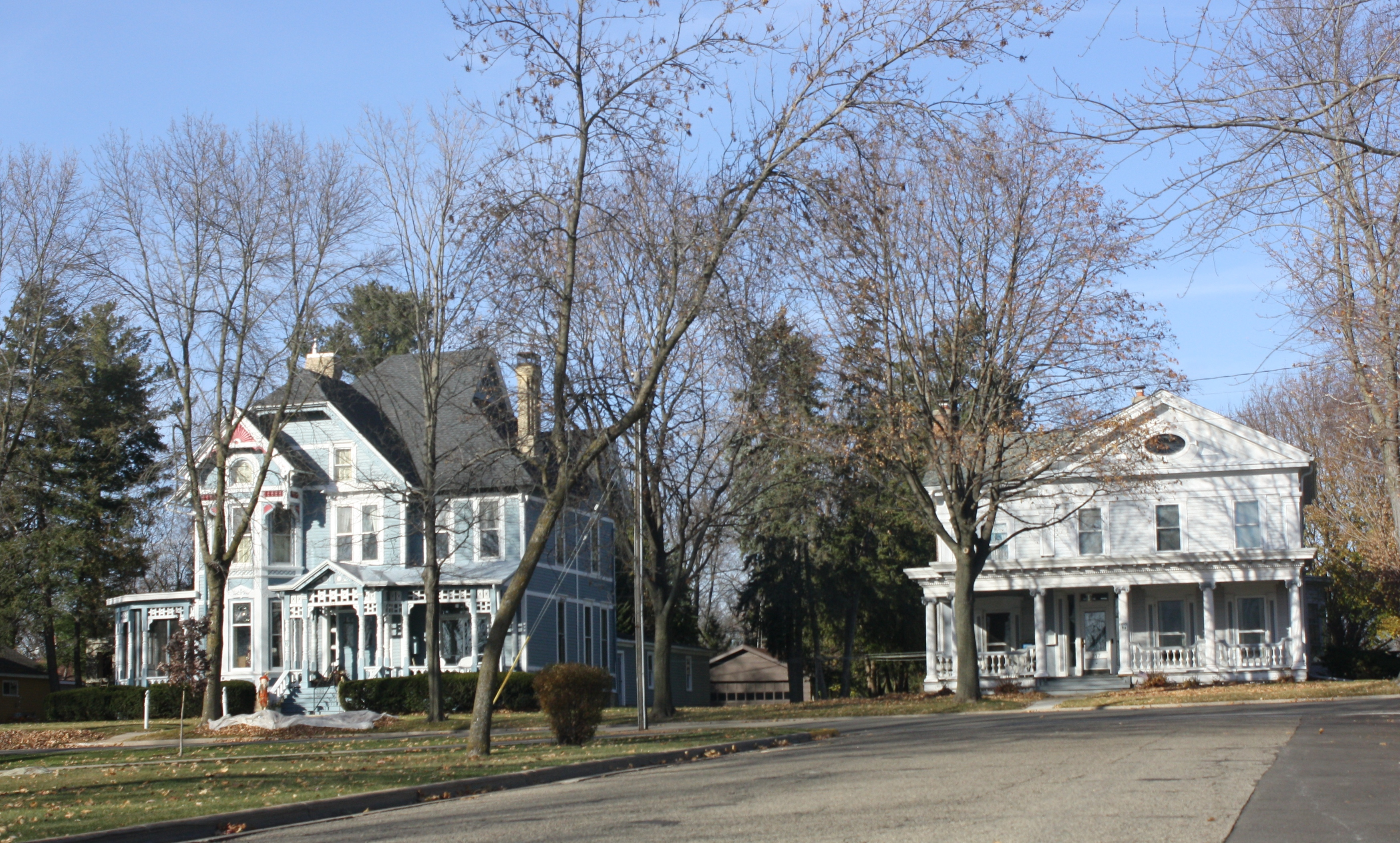 The Nathan Strong Park Historic District in Berlin, Wisconsin, listed on the National Register of Historic Places.